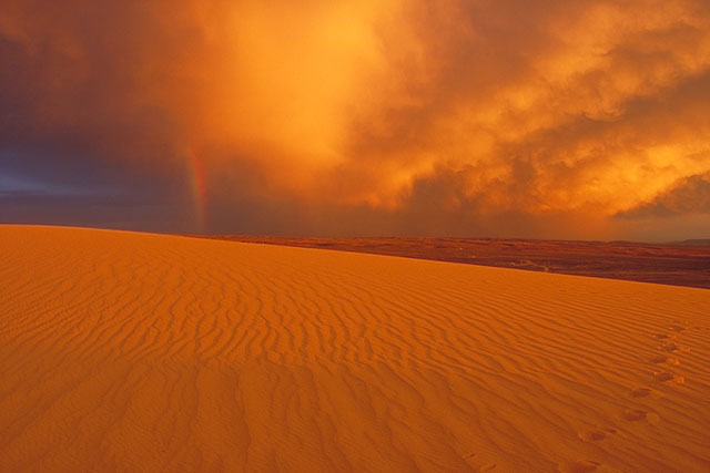 Red Desert, Wyoming, USA Transwiki approved by: User:Dmcdevit This image was copied from en. The original description was: No photo credit is given.